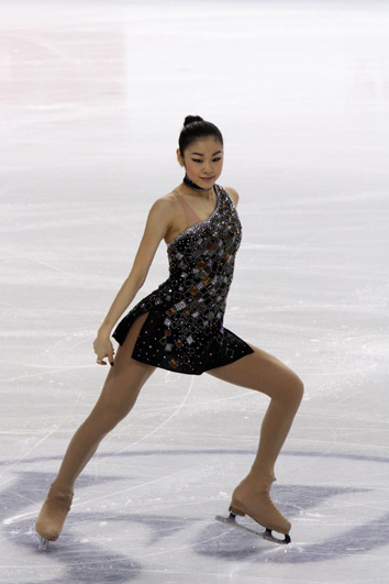 Kim at the 2010 World Championships.